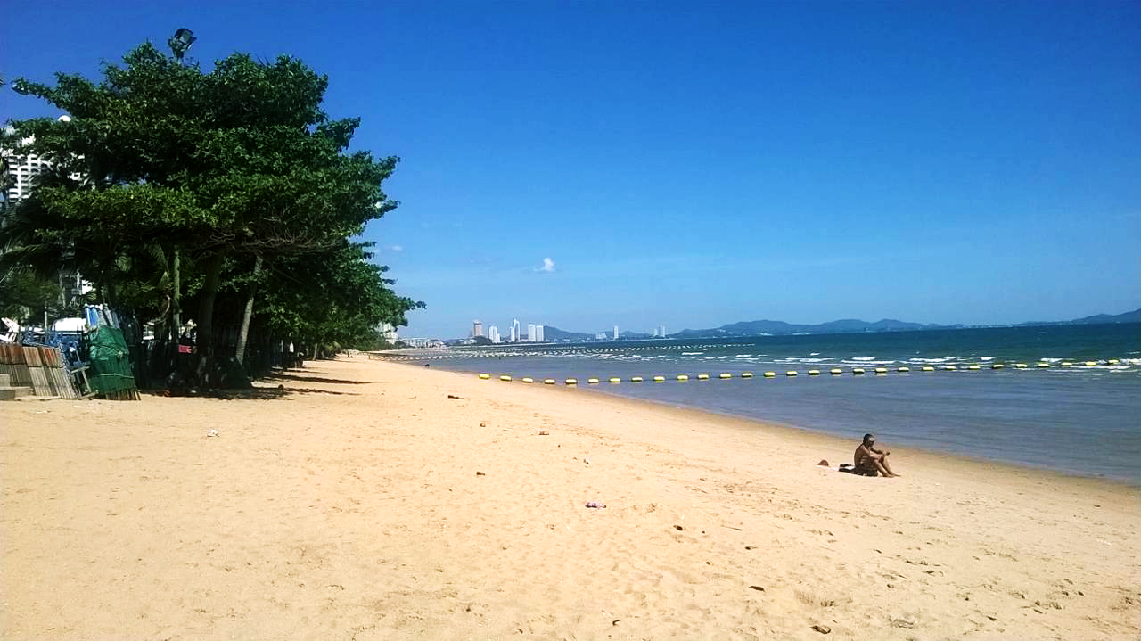 Jomtien Beach, near soi Welcome Jomtien